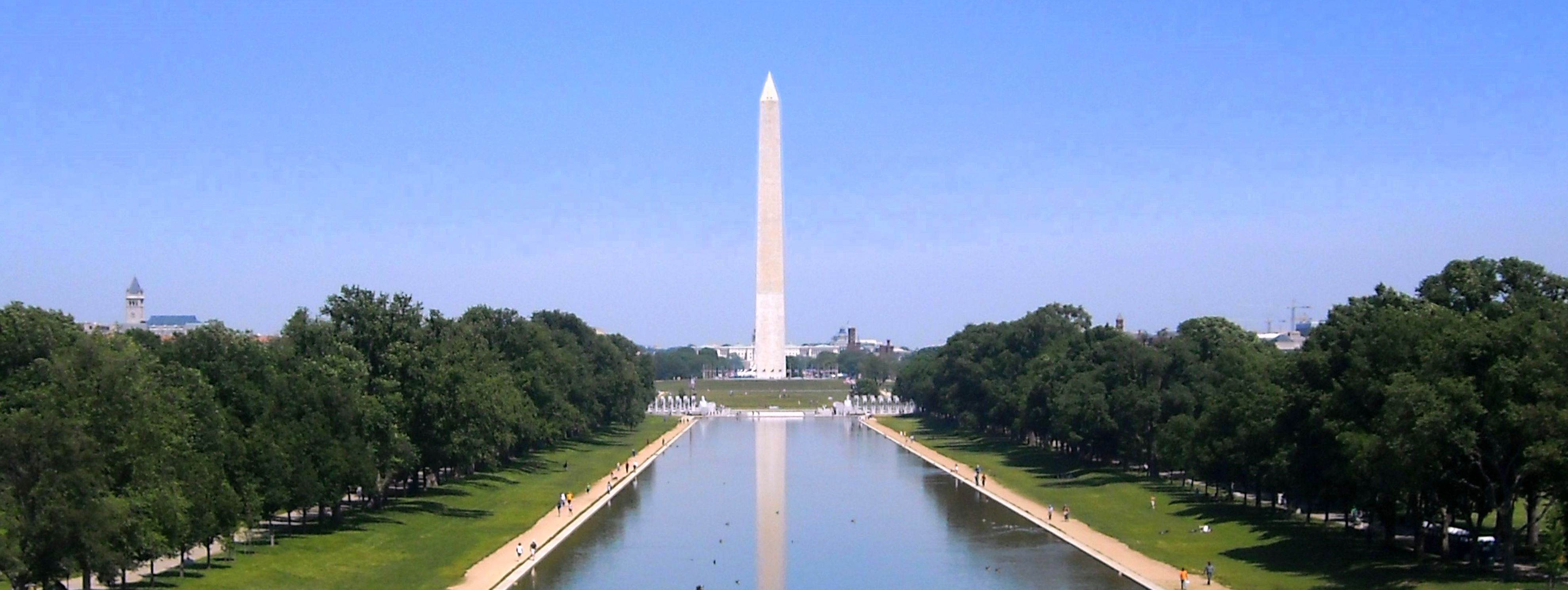 Washington Monument, , Reflecting Pool, Old Post Office tower, National World War 2 Memorial, Smithsonian Castle, Capitol Hill dome. View from the steps of the Lincoln Memorial.